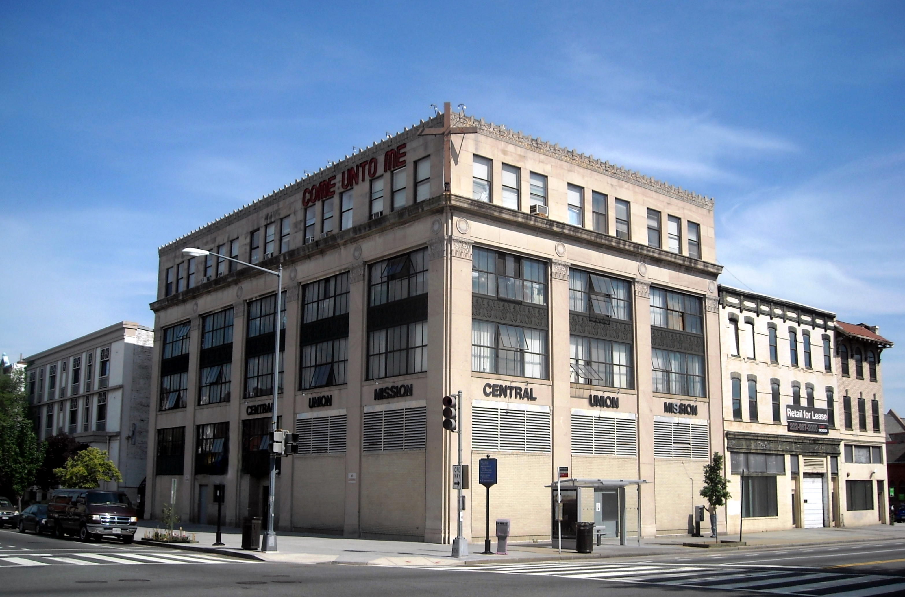 The Central Union Mission's former facility (now part of The McReynolds Building project) located at 1631 14th Street, NW in the Logan Circle neighborhood of Washington, D.C. Constructed in 1922, the building originally served as an automobile showroom. It is a contributing property to the Greater Fourteenth Street Historic District.